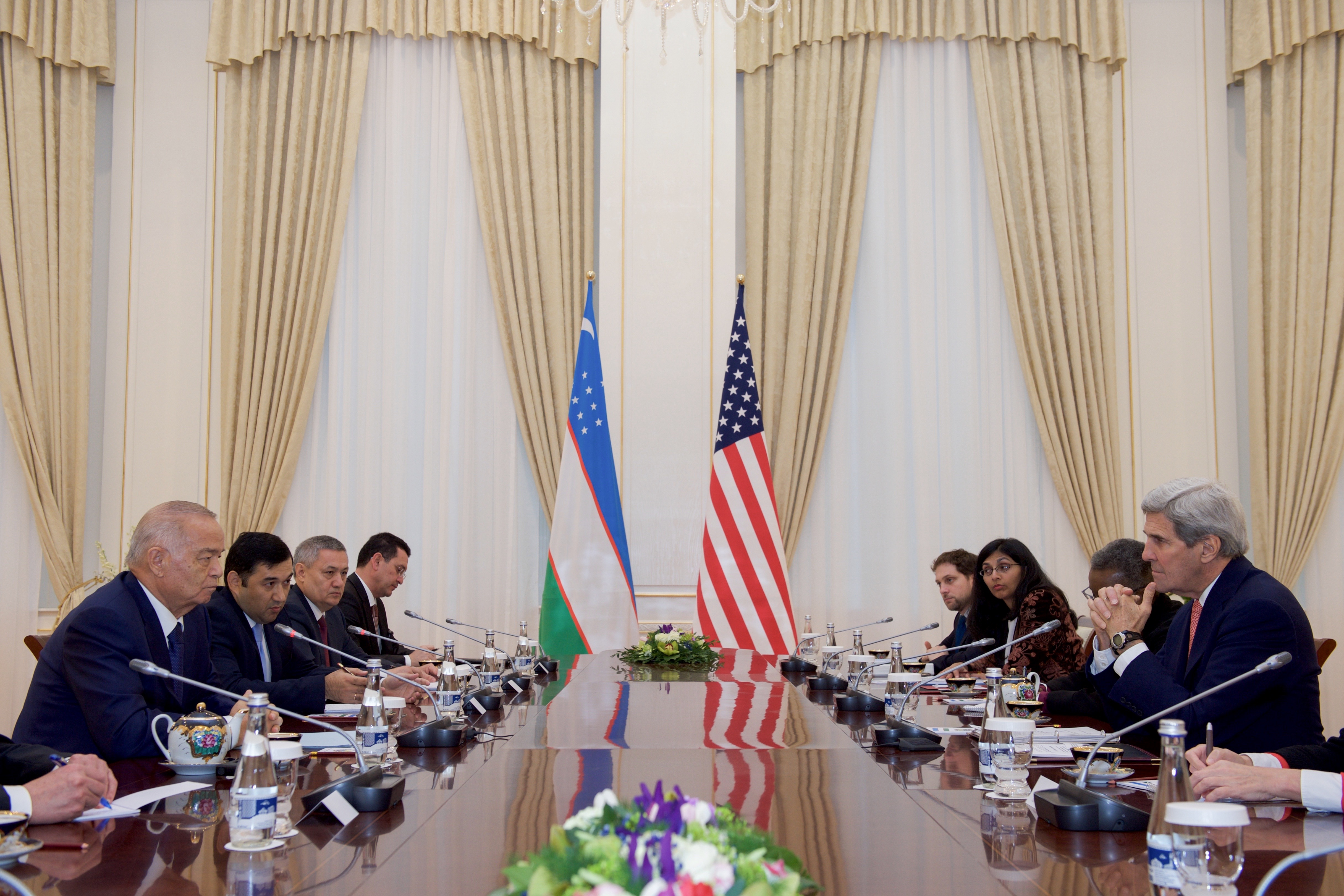 U.S. Secretary of State John Kerry listens to Uzbekistan President Islam Karimov speak at the President’s Residential Compound in Samarkand, Uzbekistan, on November 1, 2015, at the outset of a bilateral meeting, and before a broader group discussion with all five Central Asian nations.